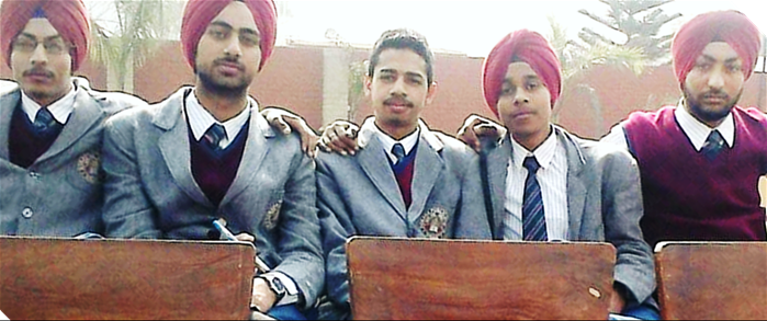 Senior-School students of Doraha Public School